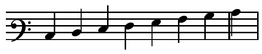 Diatonic scale on C, baritone clef.